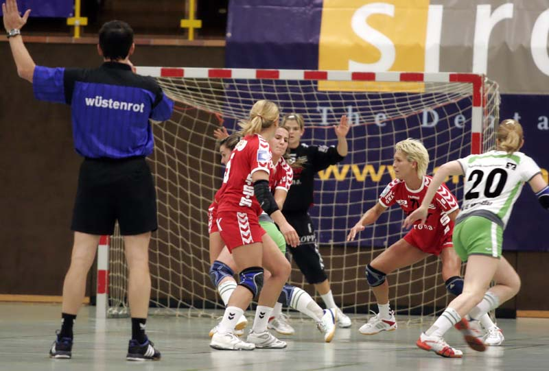 "passives Spiel" (team is passive?), shown by the referee November 12th, 2006 in Bensheim (Germany), during the Bundesliga game HSG Bensheim/Auerbach - TV Mainzlar